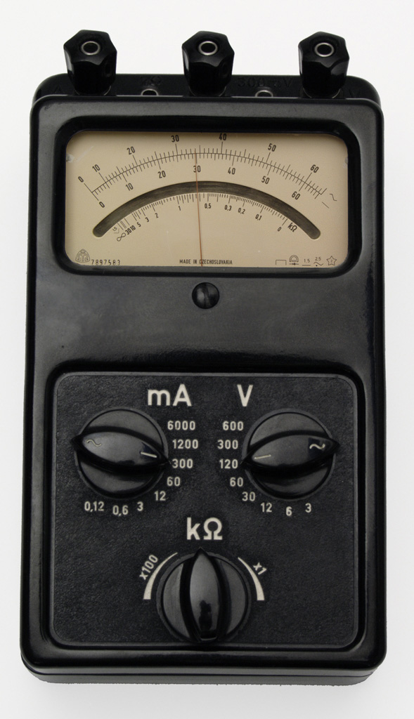 Multimeter DU10 front side